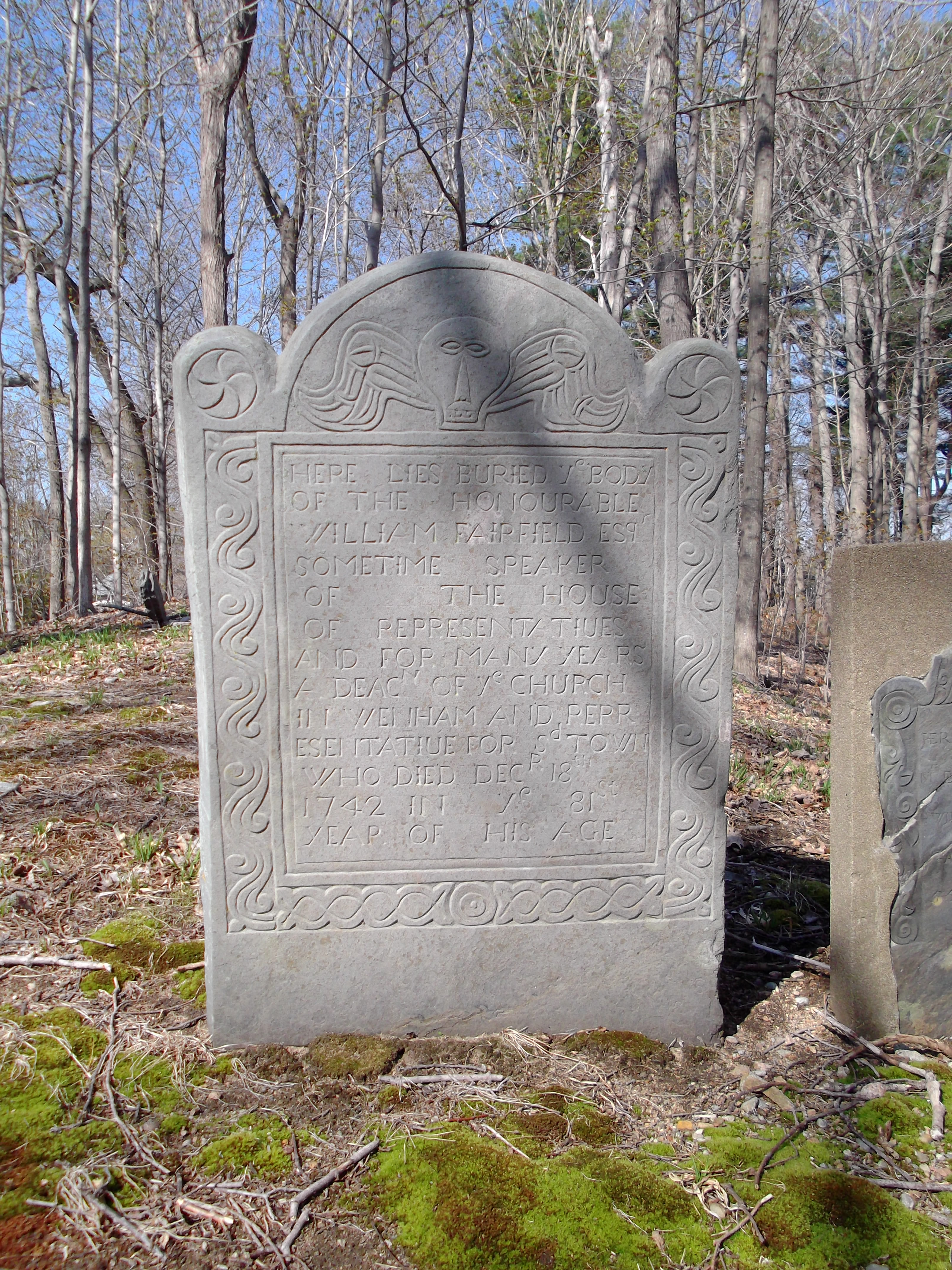 Primary gravestone of William Fairfield, Fairfield Family Burial Ground, William Fairfield Drive, Wenham, MA